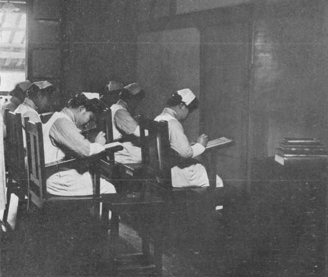 Students at Hsiang-Ya School of Nursing c1917 in Changsha, Hunan, taking examination. (Yale-China sponsored)